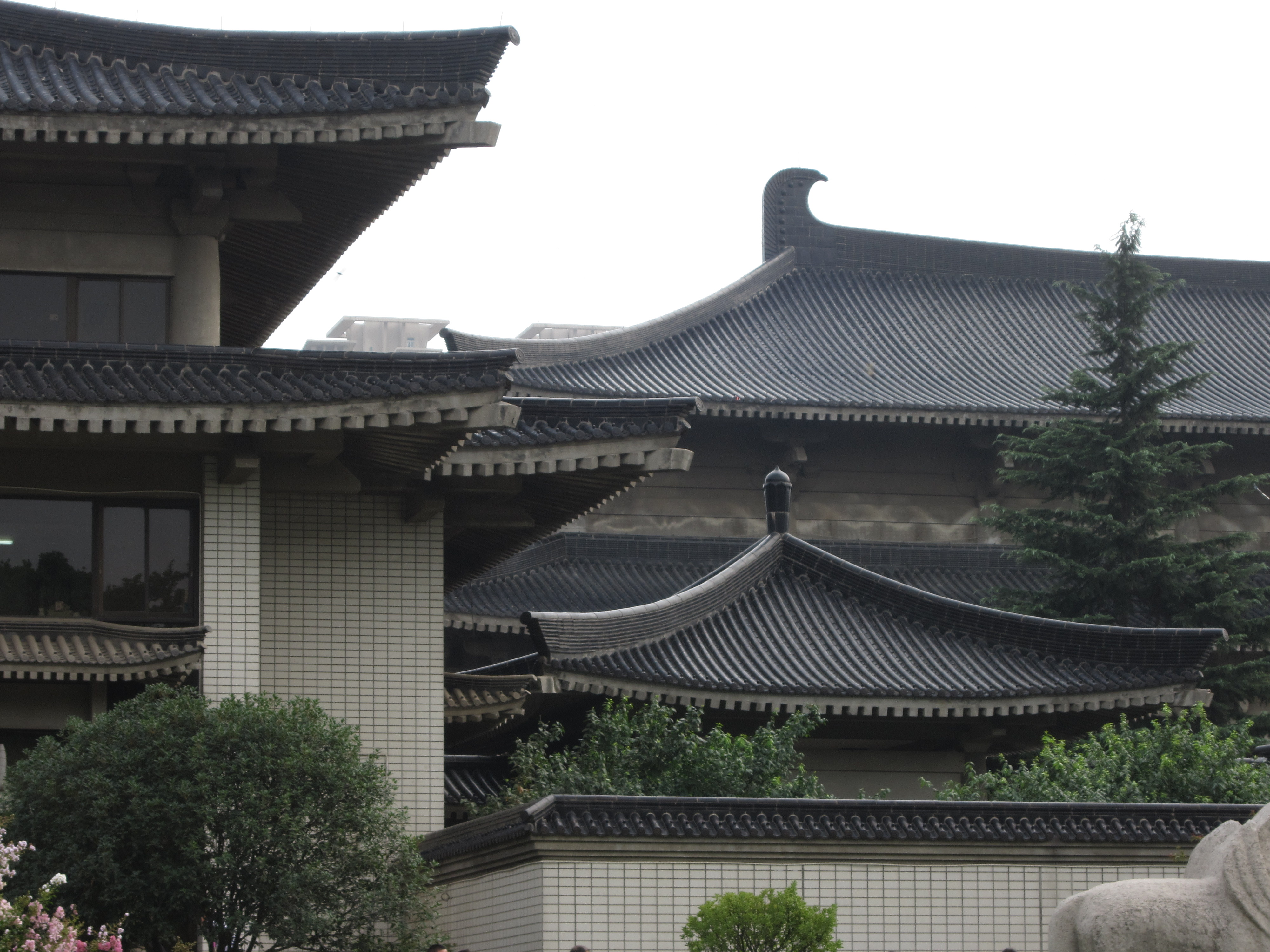 The facade/tiled roof of the Shaanxi History Museum, located in Yanta District, Xi'an, China. Designed by Zhang Jinqiu in "Tang Dynasty Revival style".